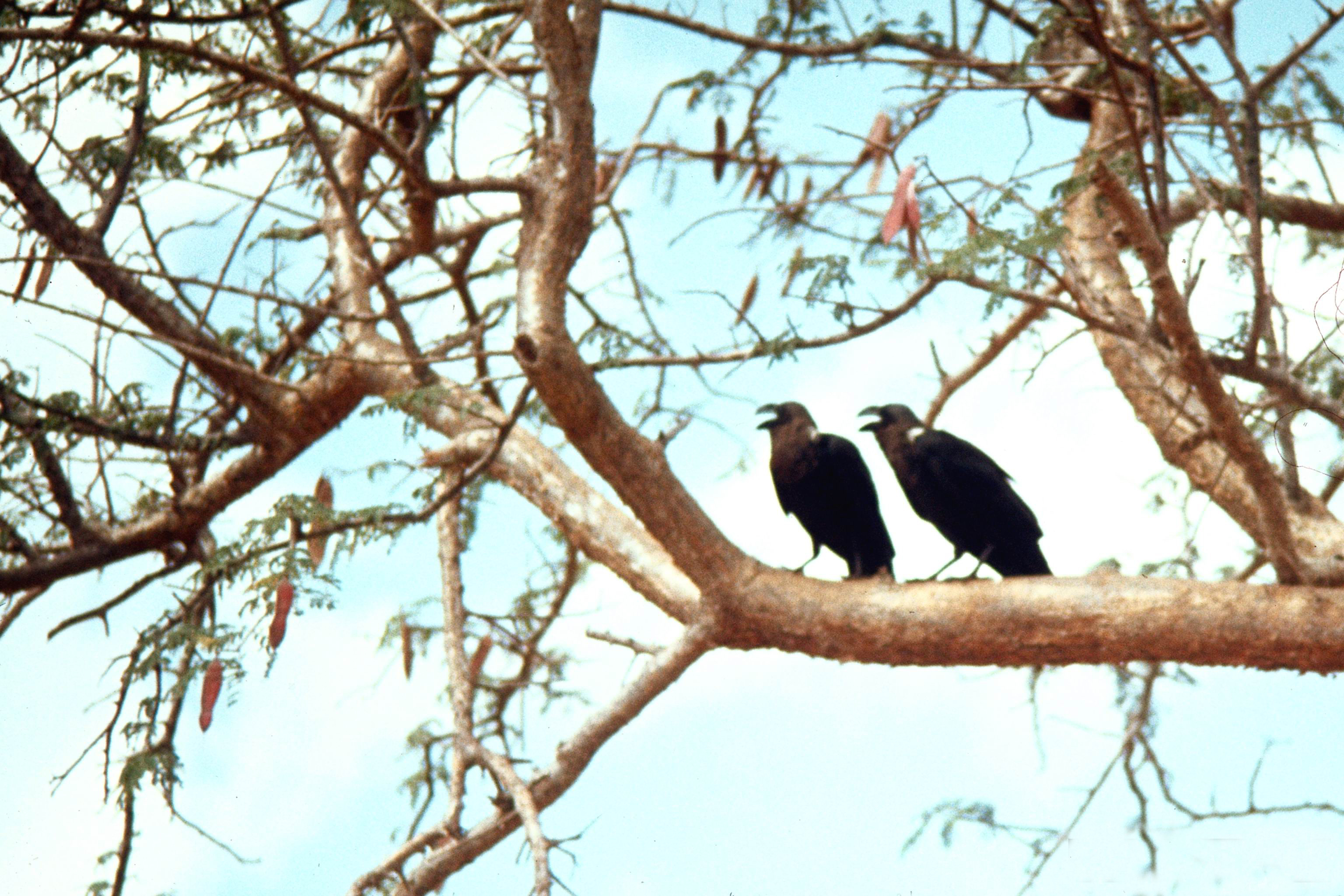 Two Corvus albicollis (White-necked Raven).